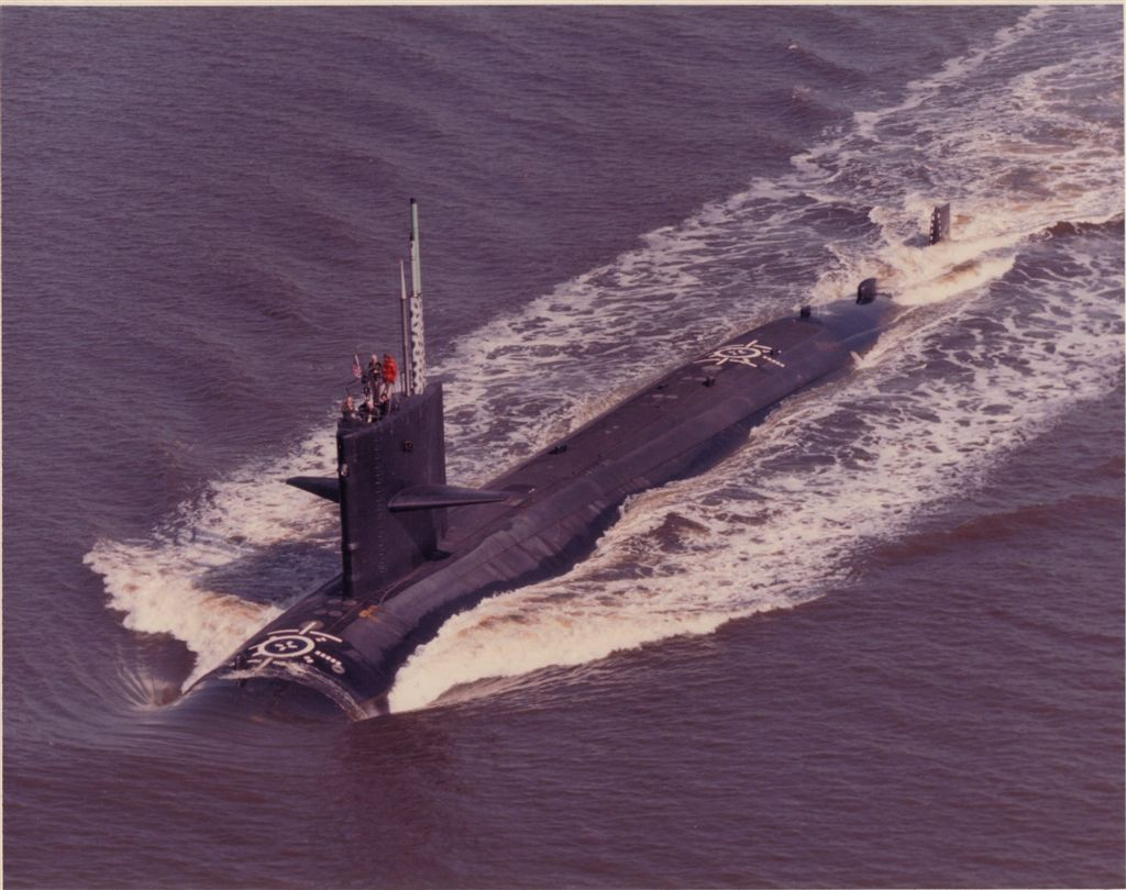 United States Navy attack submarine USS Sea Devil (SSN-664), possibly during her sea trials off Virginia